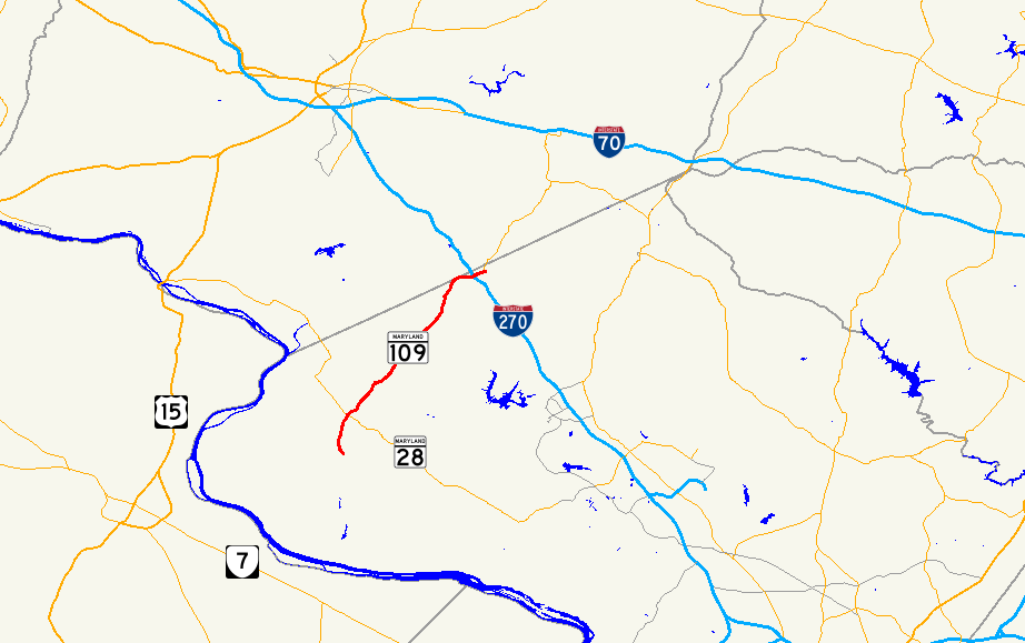 Map of Maryland Route 109